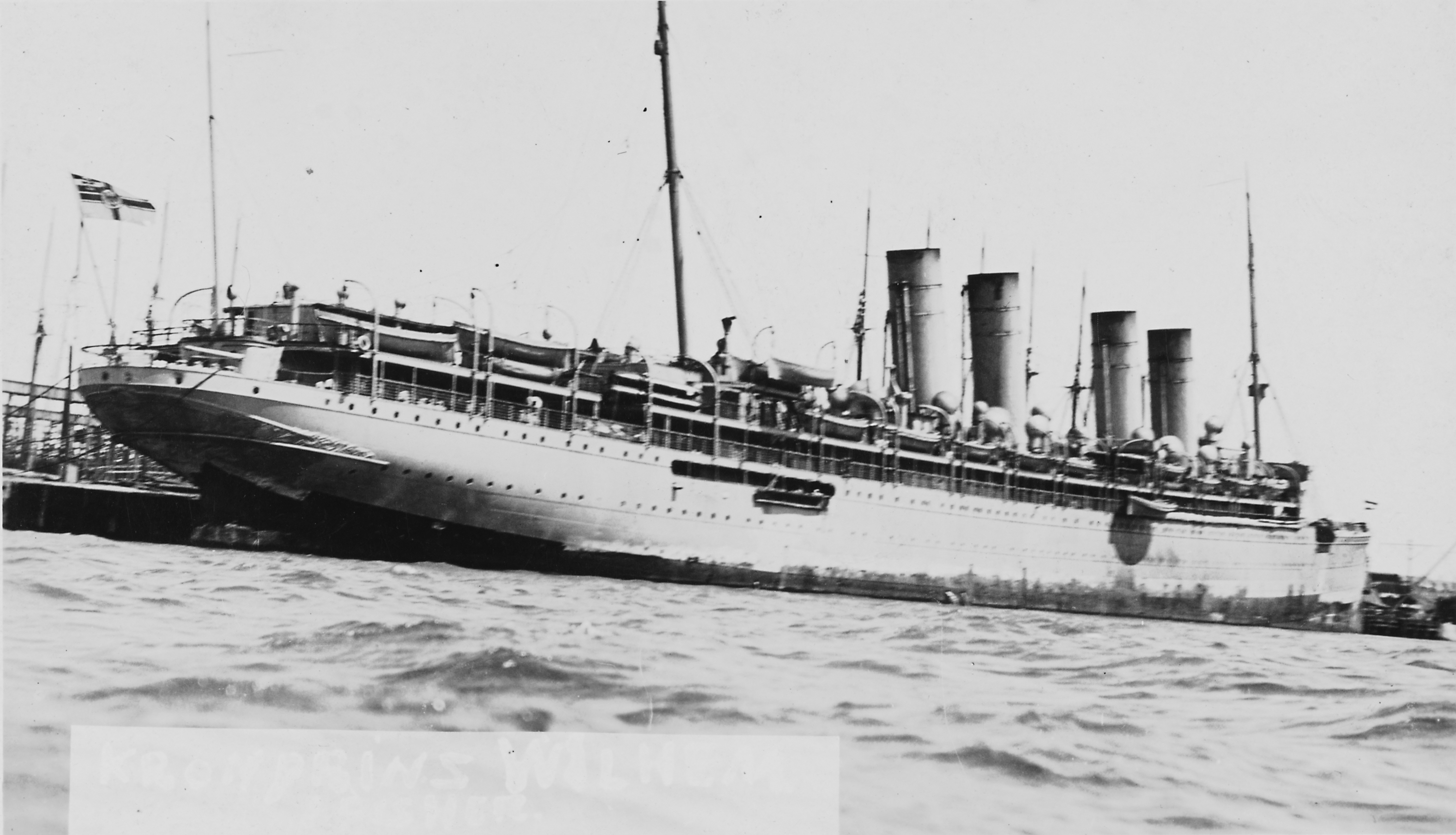 SMS Kronprinz Wilhelm (German Auxiliary Cruiser, formerly Passenger Liner, 1901) In a U.S. port, circa April 1915. Note that the ship still carries her guns and flies the German naval ensign. She was interned for the next two years, and served in 1917-1919 as USS Von Steuben (ID # 3017), Photographed by Fisher and printed on postcard ("AZO") stock. Donation of Charles R. Haberlein Jr., 2007.